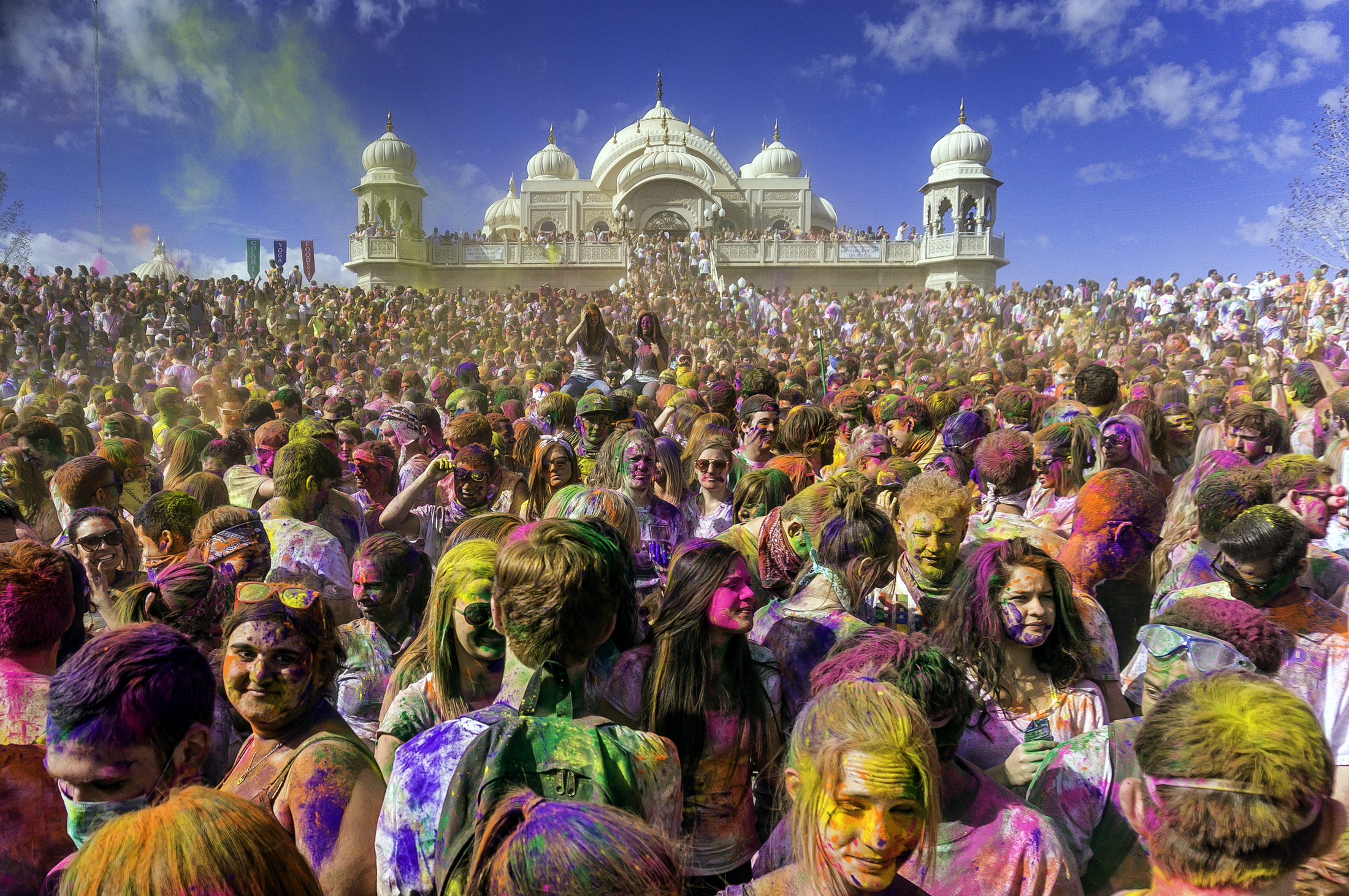 The projected over 80,000 attendants at the 2013 Festival of Colors! In the back is Sri Radha Krishna Temple Spanish Fork, Utah, United States